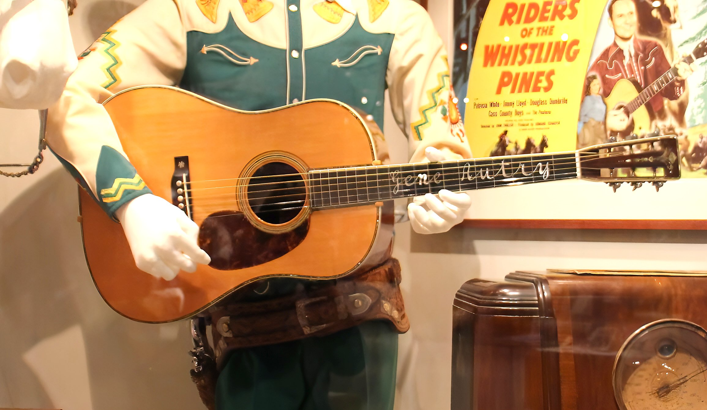 Gene Autry's original Martin D-45 guitar on display at the Autry National Center (detail from Autry exhibit); file crop+sharpen from